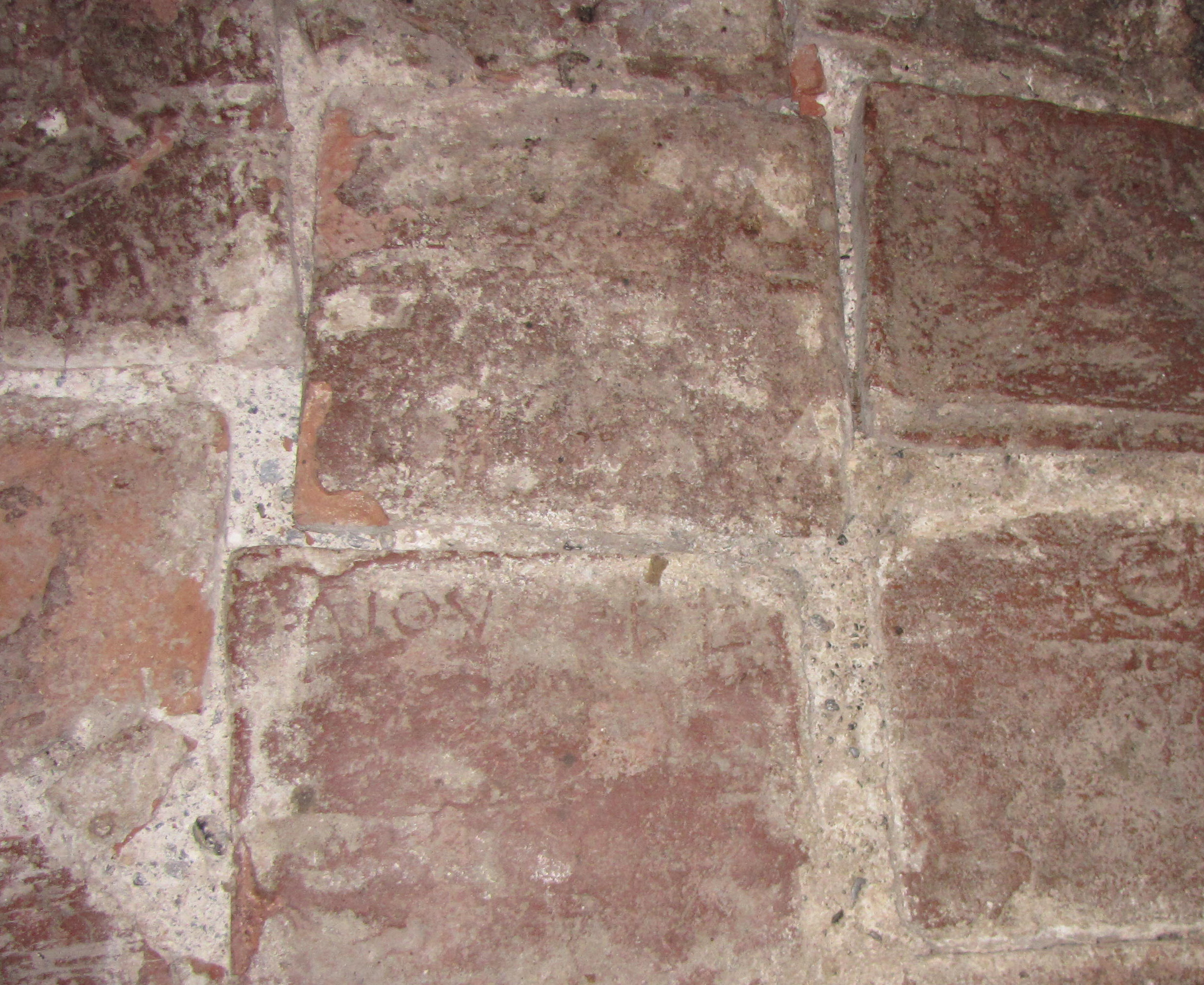 Terrakotta tile at panagia, Kontariotissa